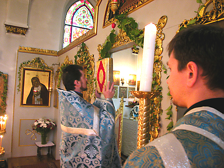 Liturgy in orthodox church